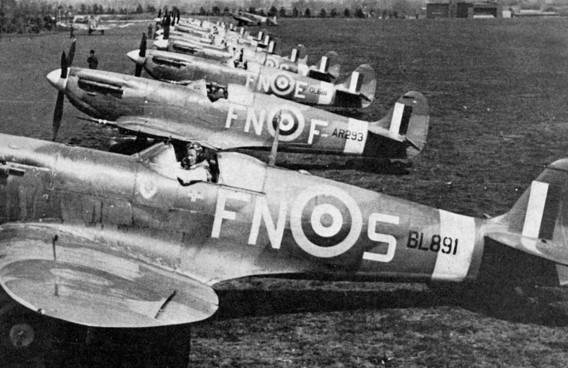 Spitfire Vs of 331 (N) Squadron at Catterick on their way to North Weald, spring 1942